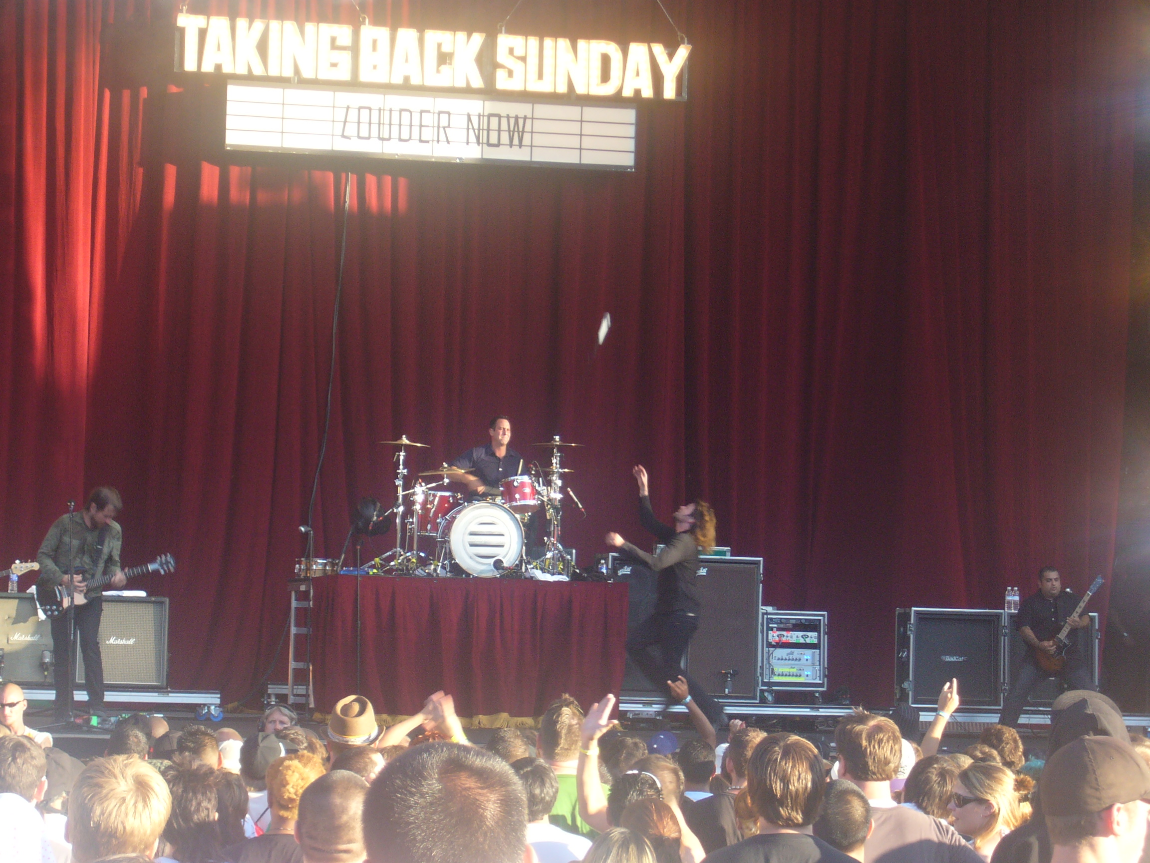 Author: Omar Otiniano Nationality: Peruvian Photo taken At: Marysville, CA